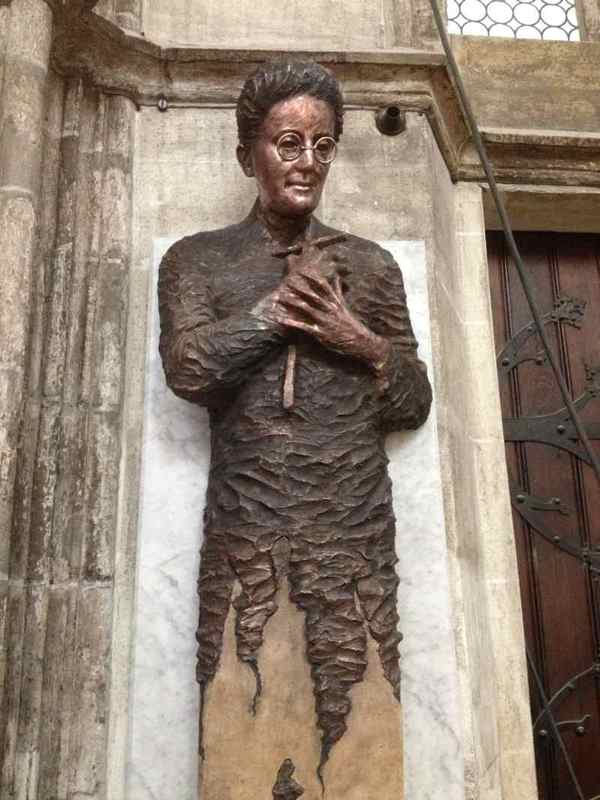 Sára Salkaházi, beatified 2006, Košice born, killed in Budapest due to hiding of Jews